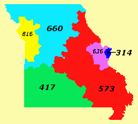 Map showing area codes for the state of Missouri in 6 colors.